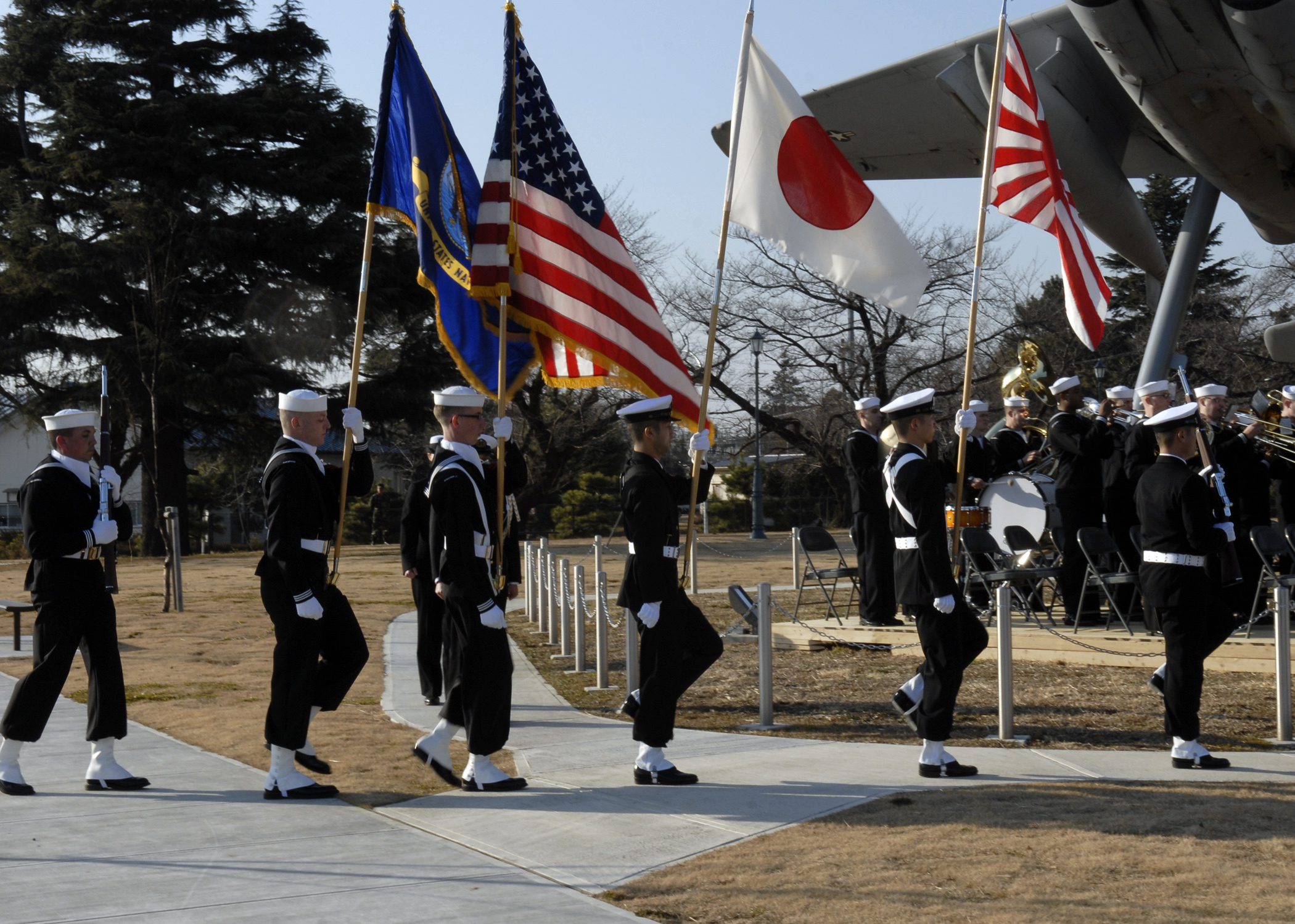 ATSUGI, Japan (Jan. 19, 2010) The U.S. Navy and Japan Maritime Self-Defense Force joint honor guard parades the colors at a dedication ceremony for Alliance Park at Naval Air Facility Atsugi. The park dedication celebrated the 50th anniversary of the signing of the Treaty of Mutual Cooperation and Security between the U.S. and Japan. Signed and ratified in 1960, the treaty serves as a foundation for the strong alliance and interoperability between the U.S. Navy and the Japan Maritime Self-Defense Force. (U.S. Navy photo by Mass Communication Specialist Seaman Mike R. Mulcare/Released)